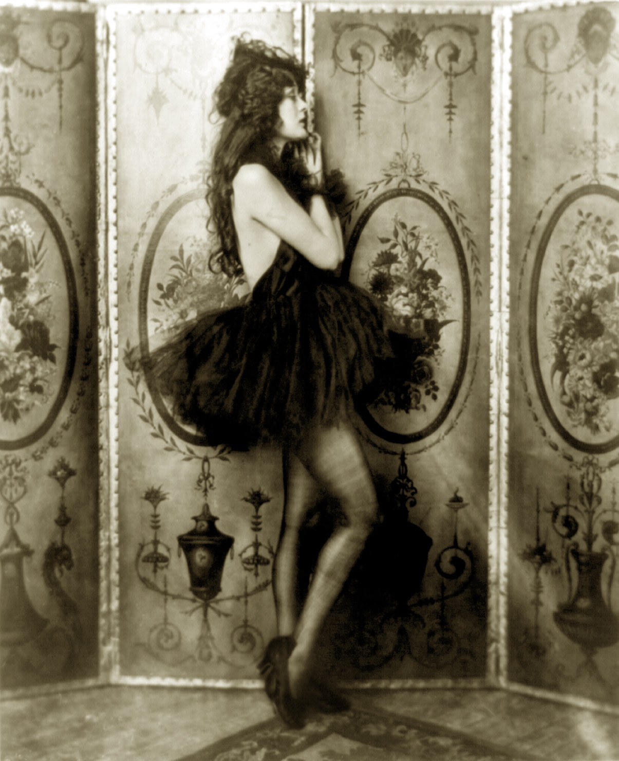 Dolores Costello during her time as a Ziegfeld girl (1922–24[1]), full length portrait, standing, right profile; wearing short dancing costume.